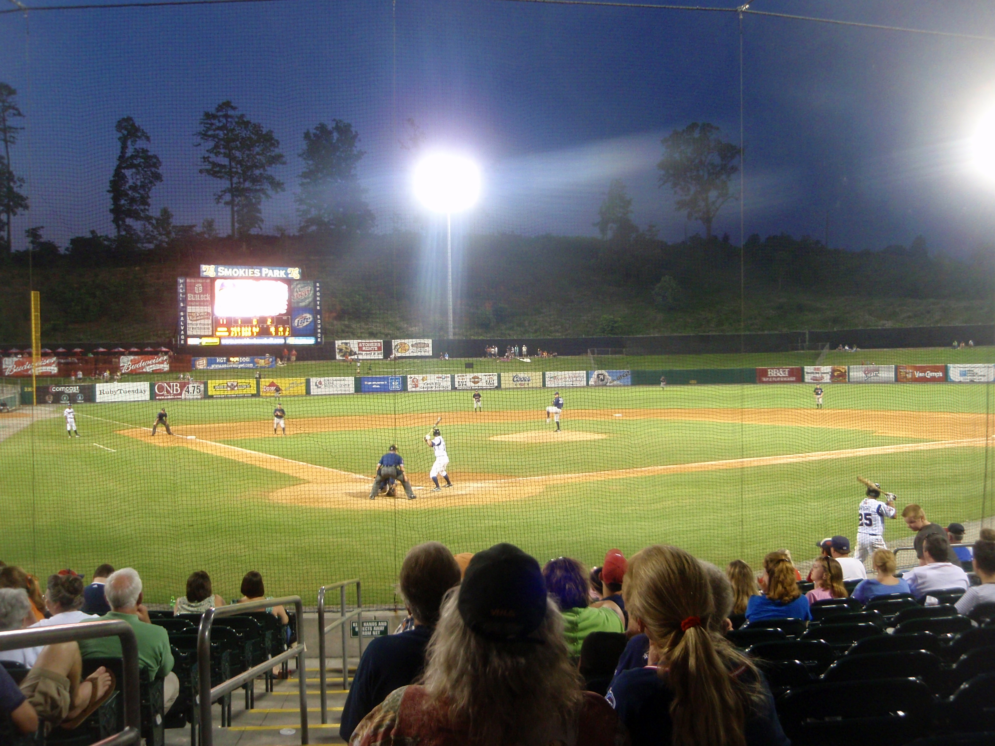 The lights came up when it got dark. (Smokies Park in Kodak, Tennessee)